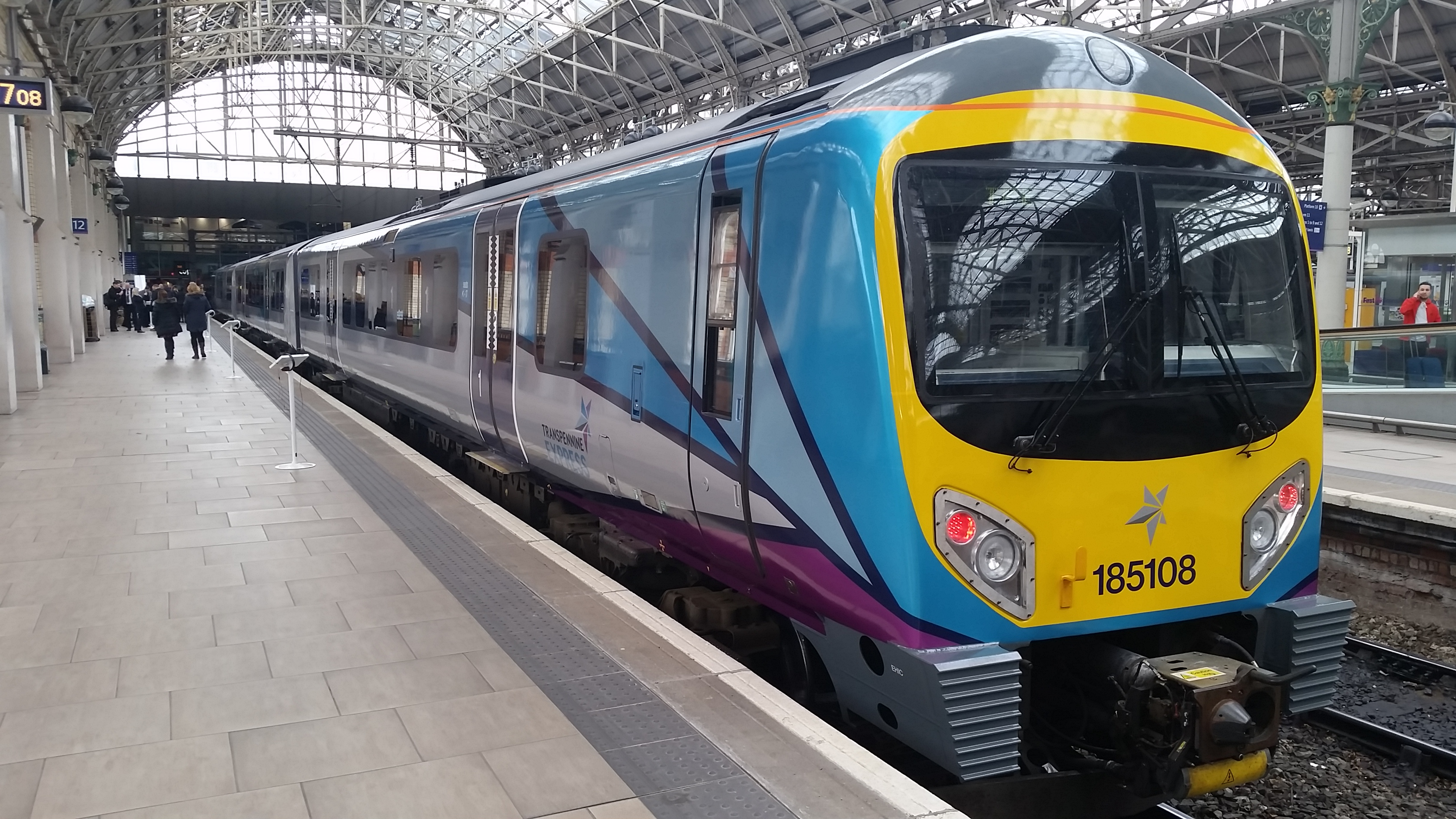 Class 185 unit 108 in new TransPennine Express livery on day 1 of the new franchise.